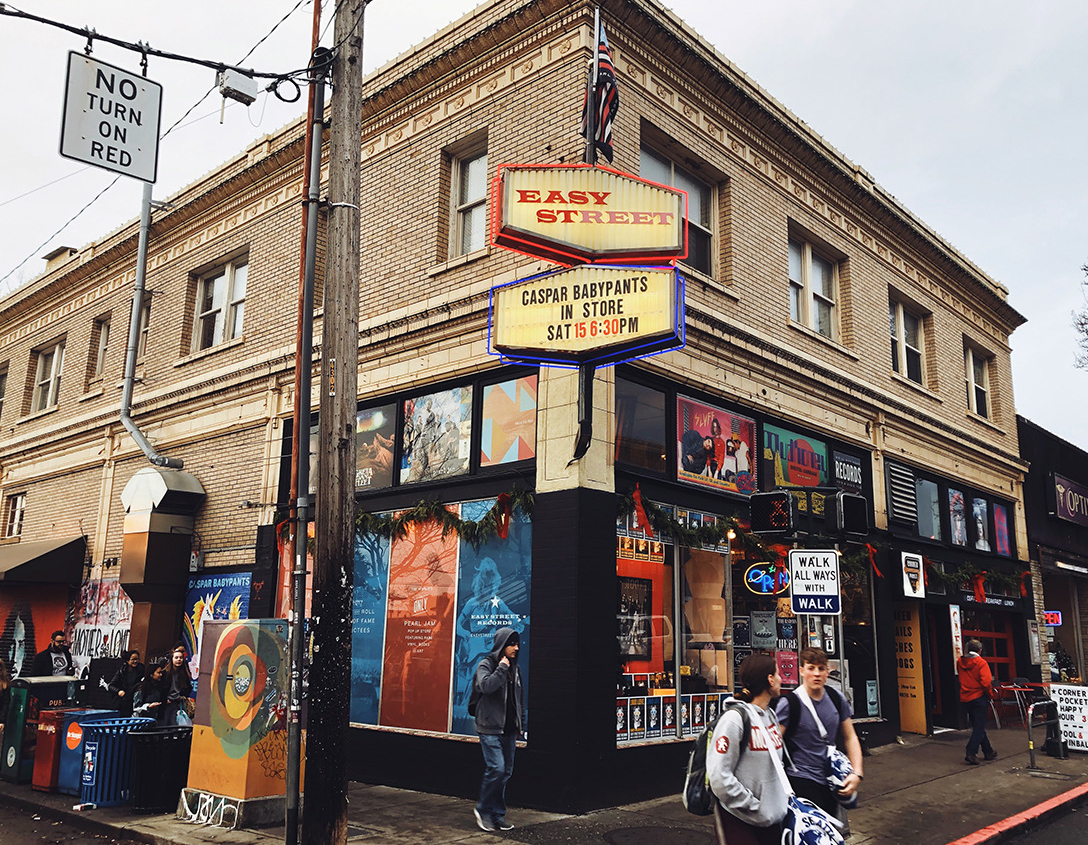 Exterior photo of Easy Street Records. Photo: Ryan Cory